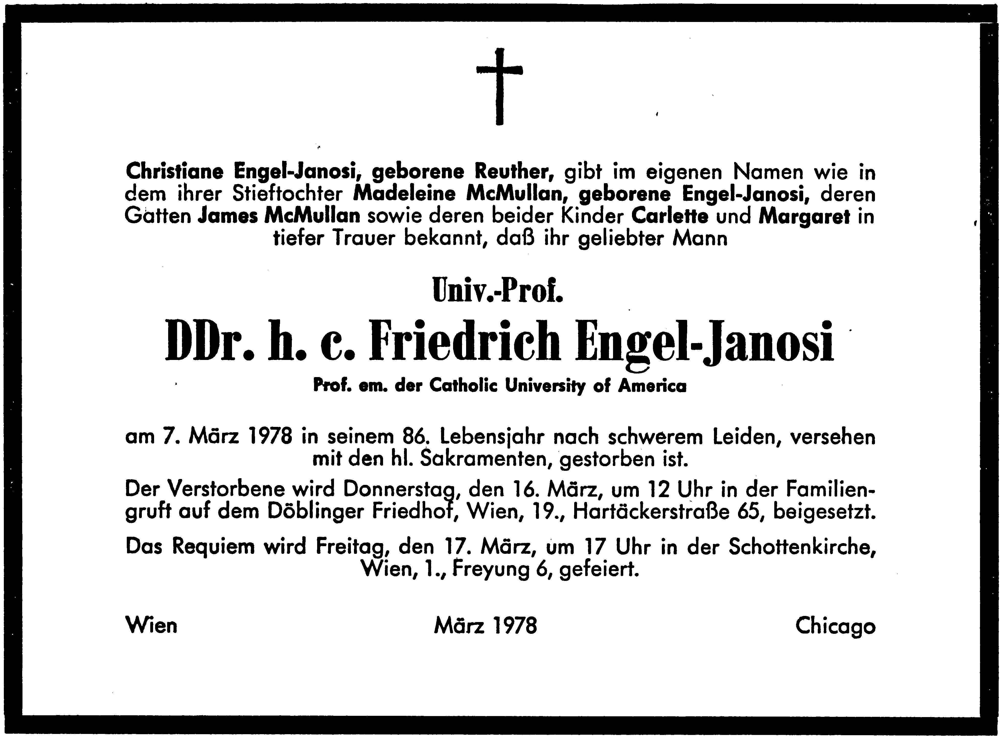 Friedrich Engel-Janosi, death notive